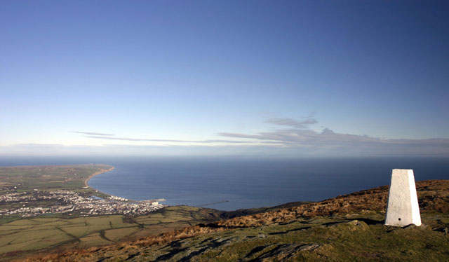 The summit of North Barrule - IOM Looking N to Ramsey and the Point of Ayre, from about 1810 feet.